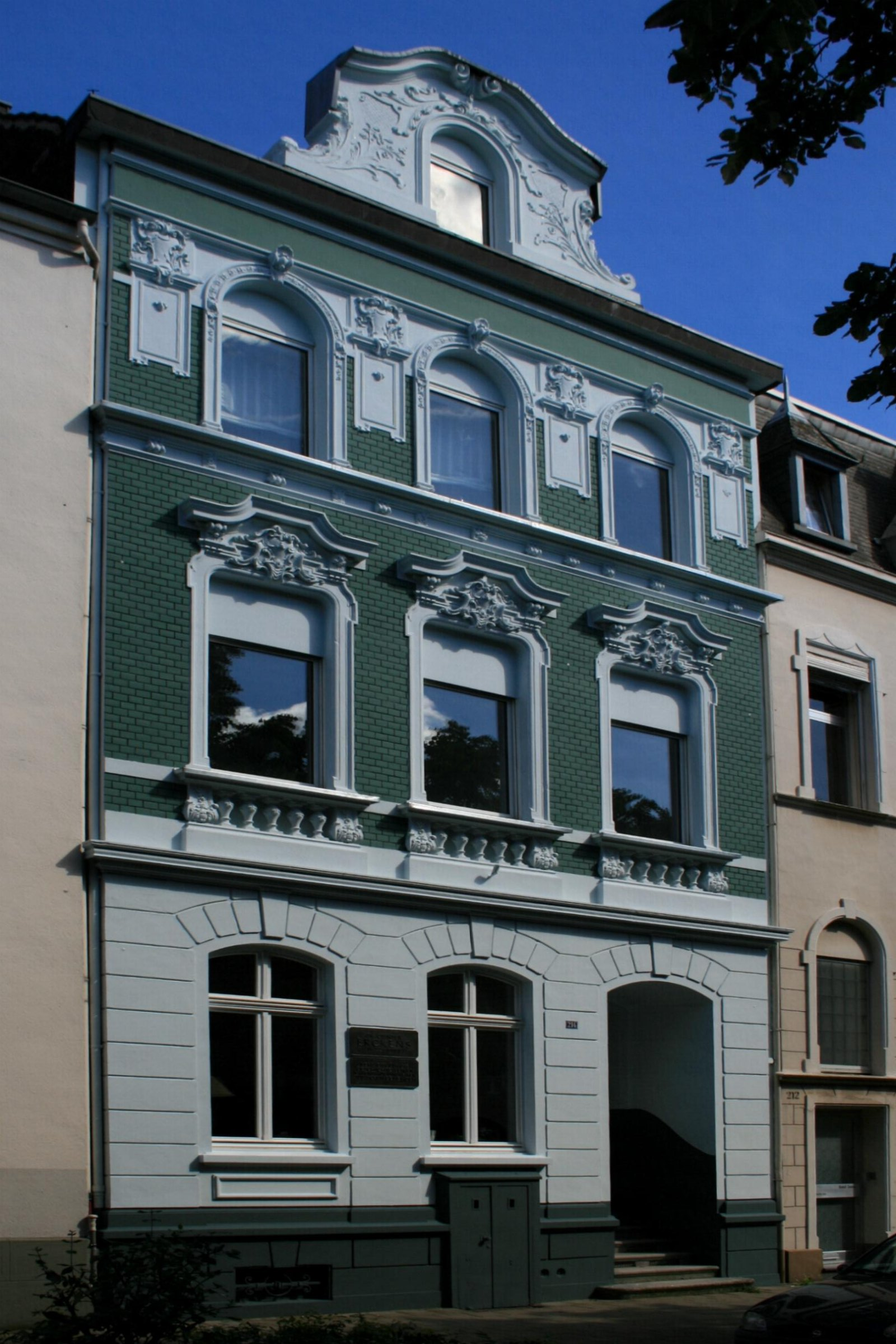 Cultural heritage monument No. B 106 in Mönchengladbach